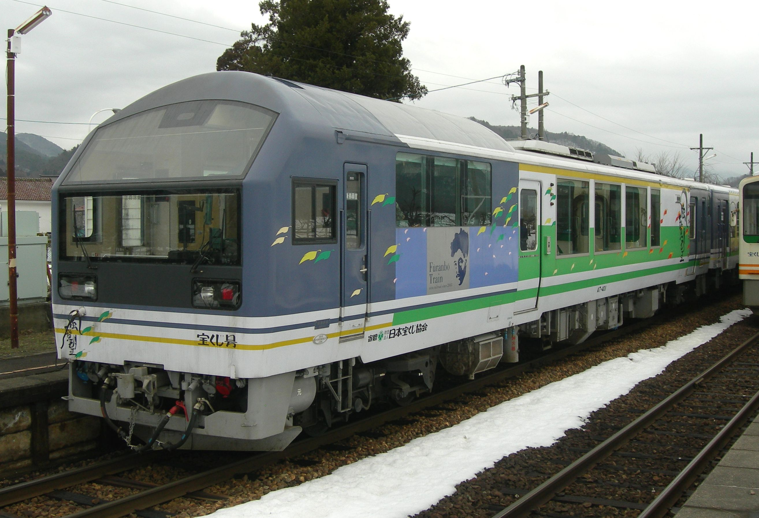 Aizu Railway AT-400 Type Diesel Car.